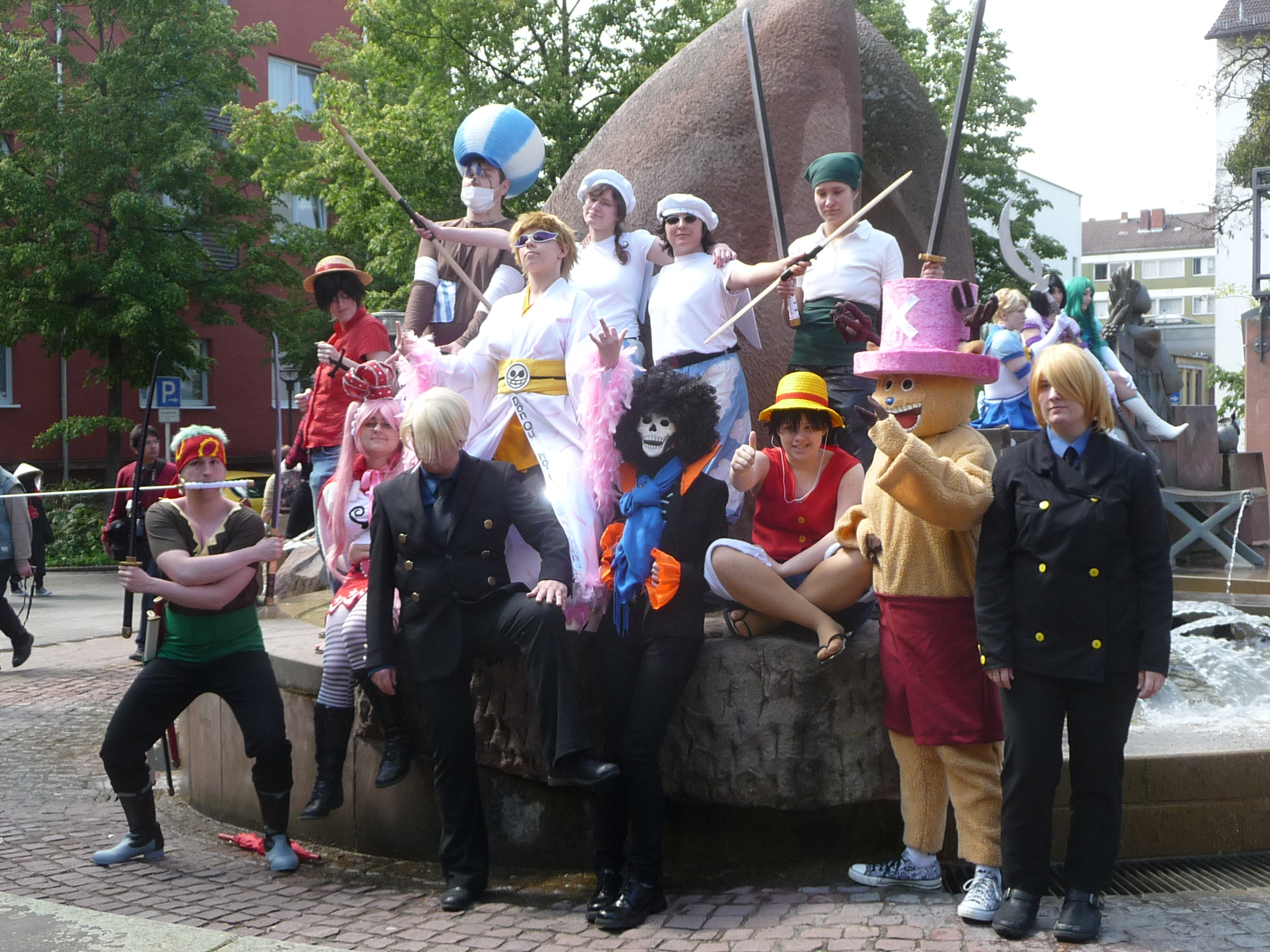 Cosplay